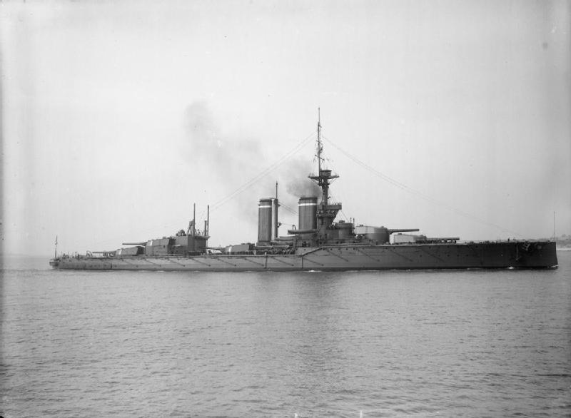 Photograph of British battleship HMS King George V.